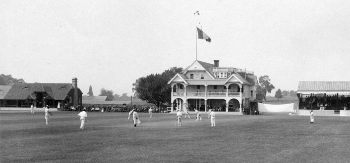 The Philadelphia Cricket Club in 1884